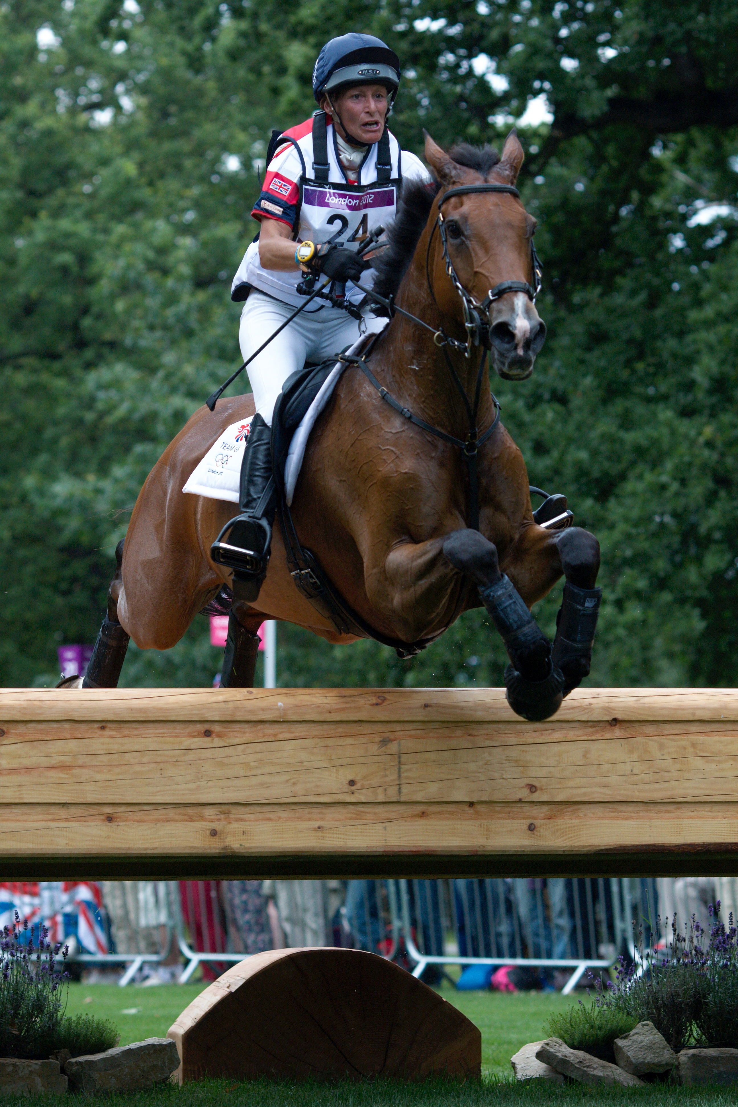 ial Cavalier, competing for GBR, at fence 21, during the cross-country phase of the Eventing during the 2012 Olympic Games in Greenwich Park, London.